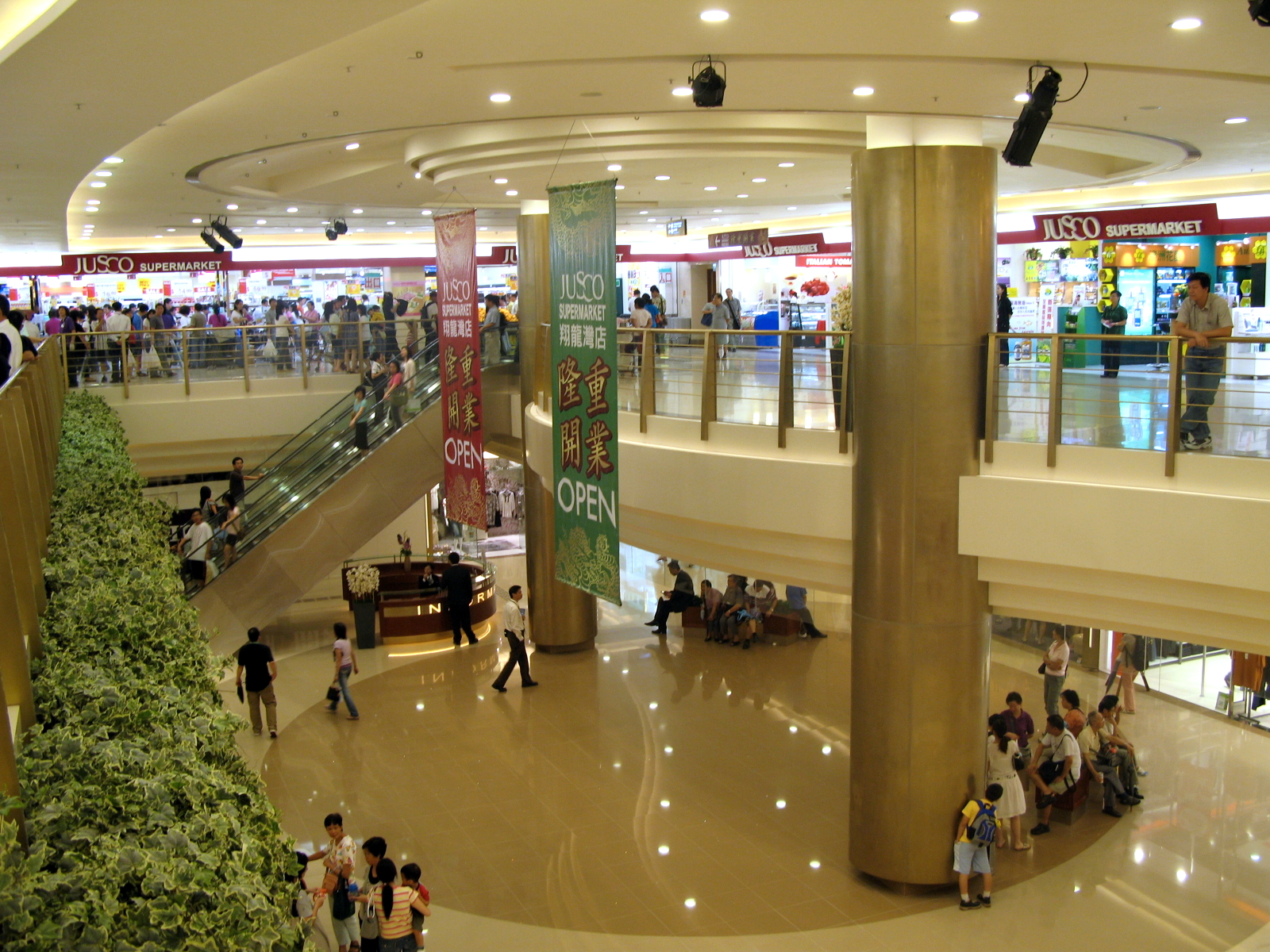 翔龍灣廣場 HK Grand Waterfront Plaza Interior